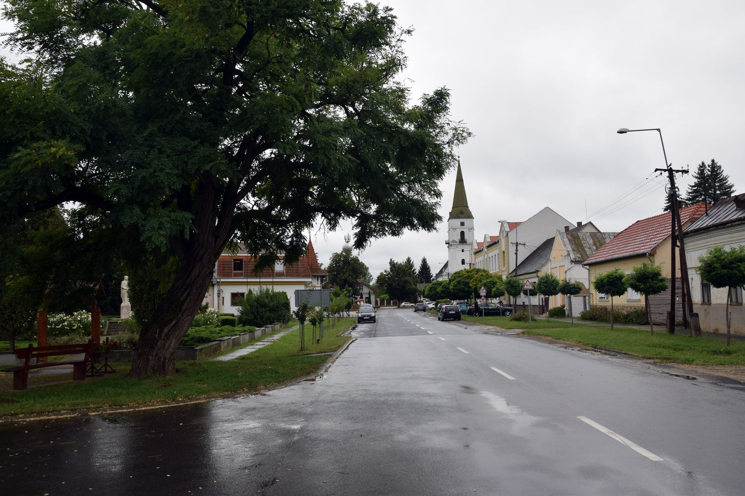 Tarpa, center and calvinist church